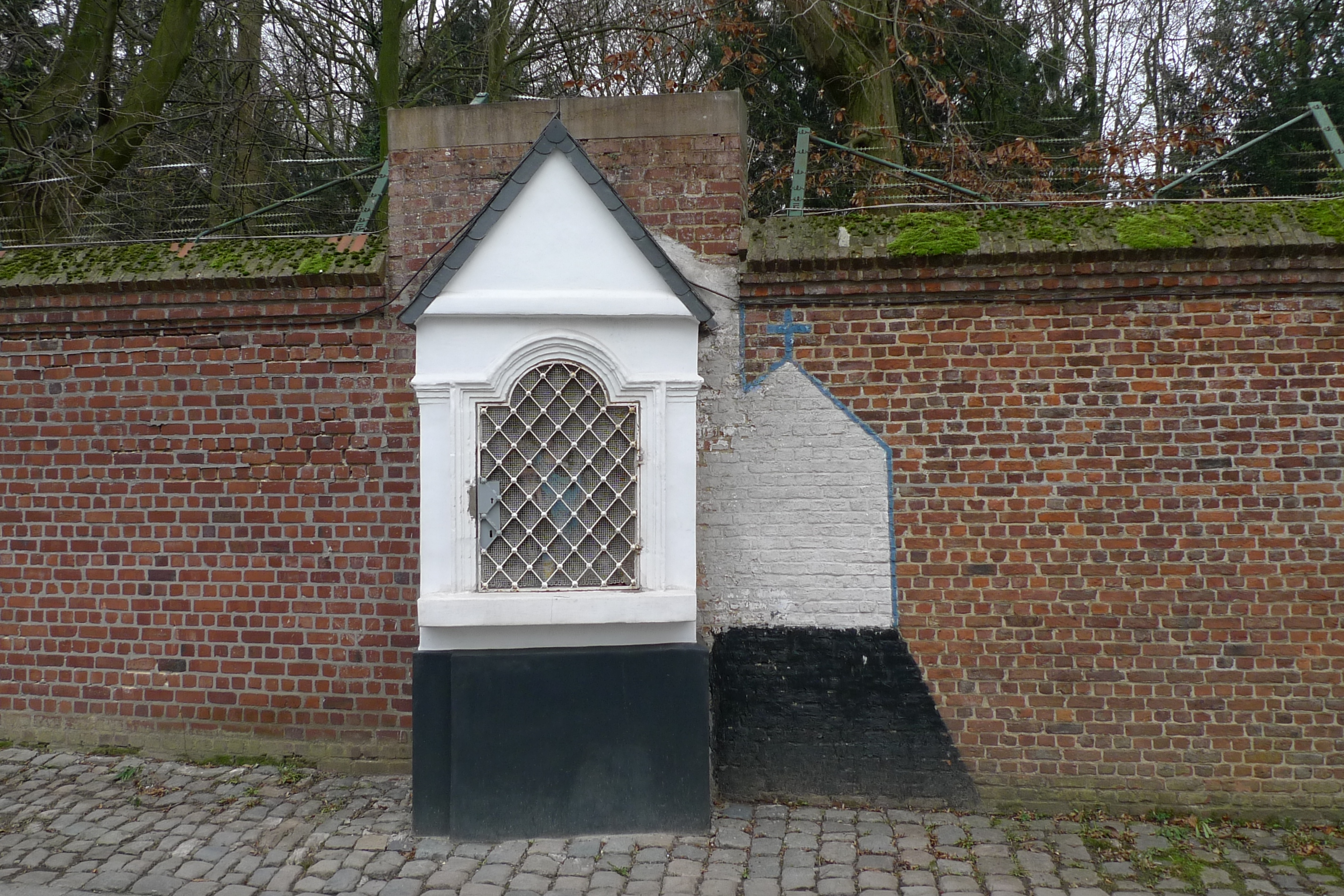 Only preserved station of the Way of the cross to the Saint Anne chapel in Laeken/Brussels, today at rue Mellery